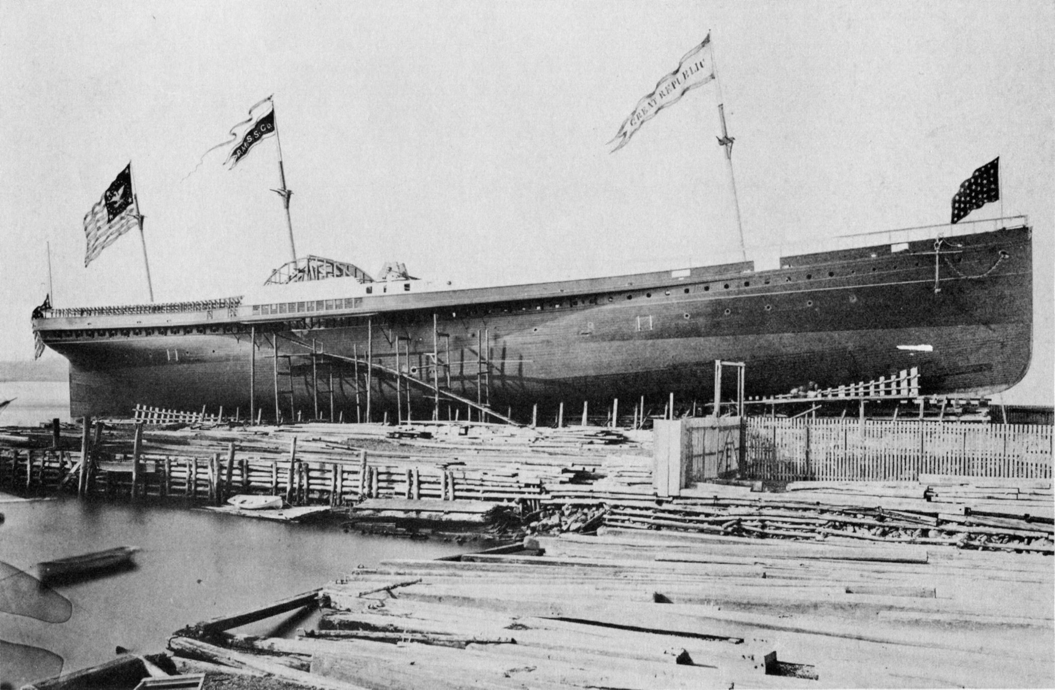 SS Great Republic under construction at the yard of Henry Steers, New York, 1866. The flags and pennants seen flying from the ship were hand-painted onto the original photograph.